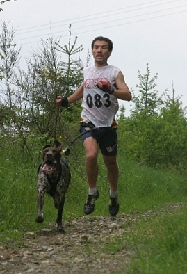 Philippe Wéry , belgian champion of canicross and bikejöring